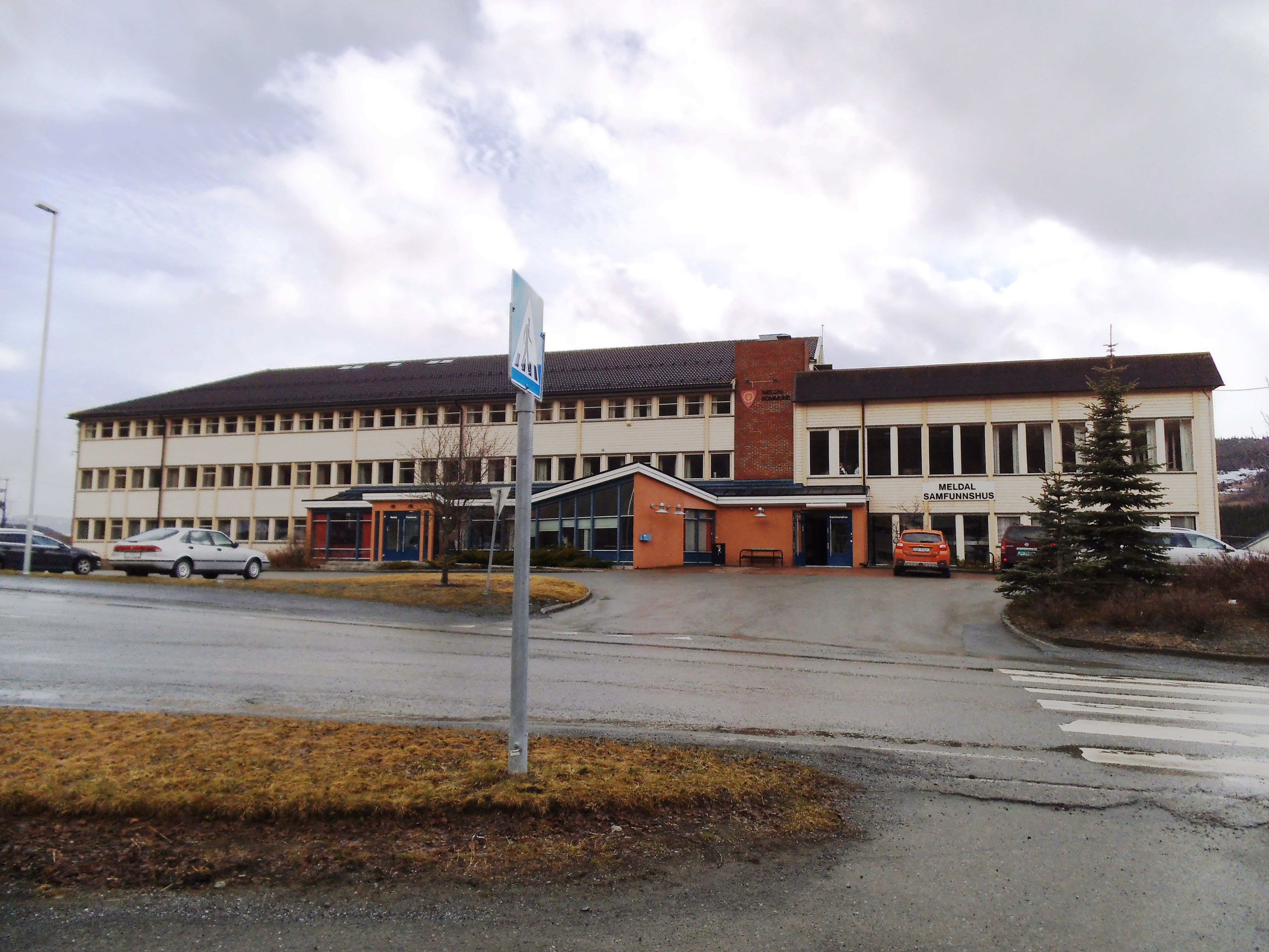 Meldal rådhus og samfunnshus. The town hall and community of Meldal.